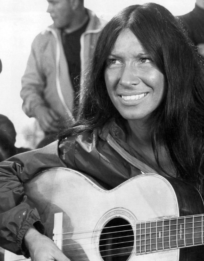 Photo of musician Buffy Sainte-Marie from her guest appearance on the television program Then Came Bronson.